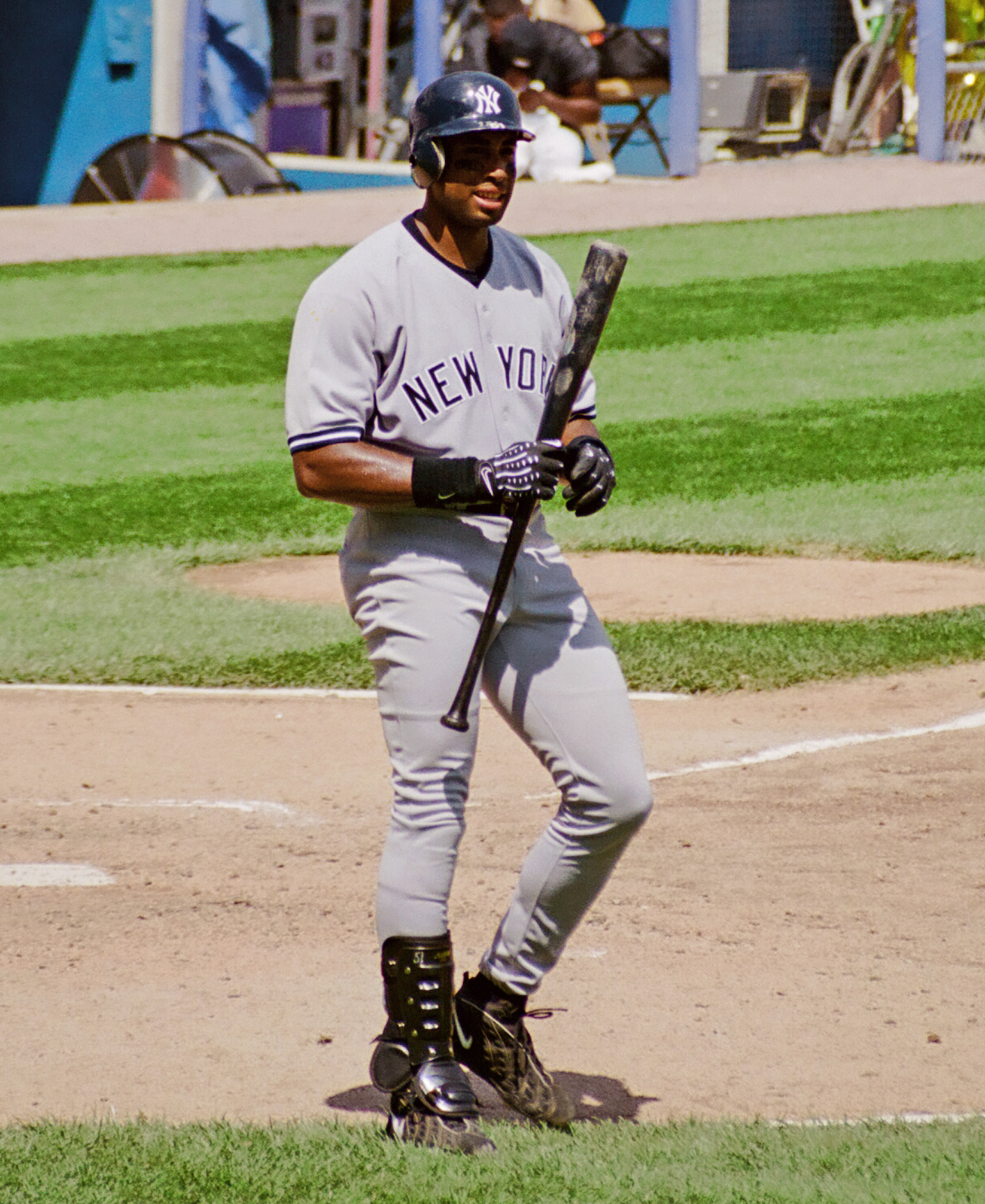 Bernie Williams at New Comiskey Park, 1999